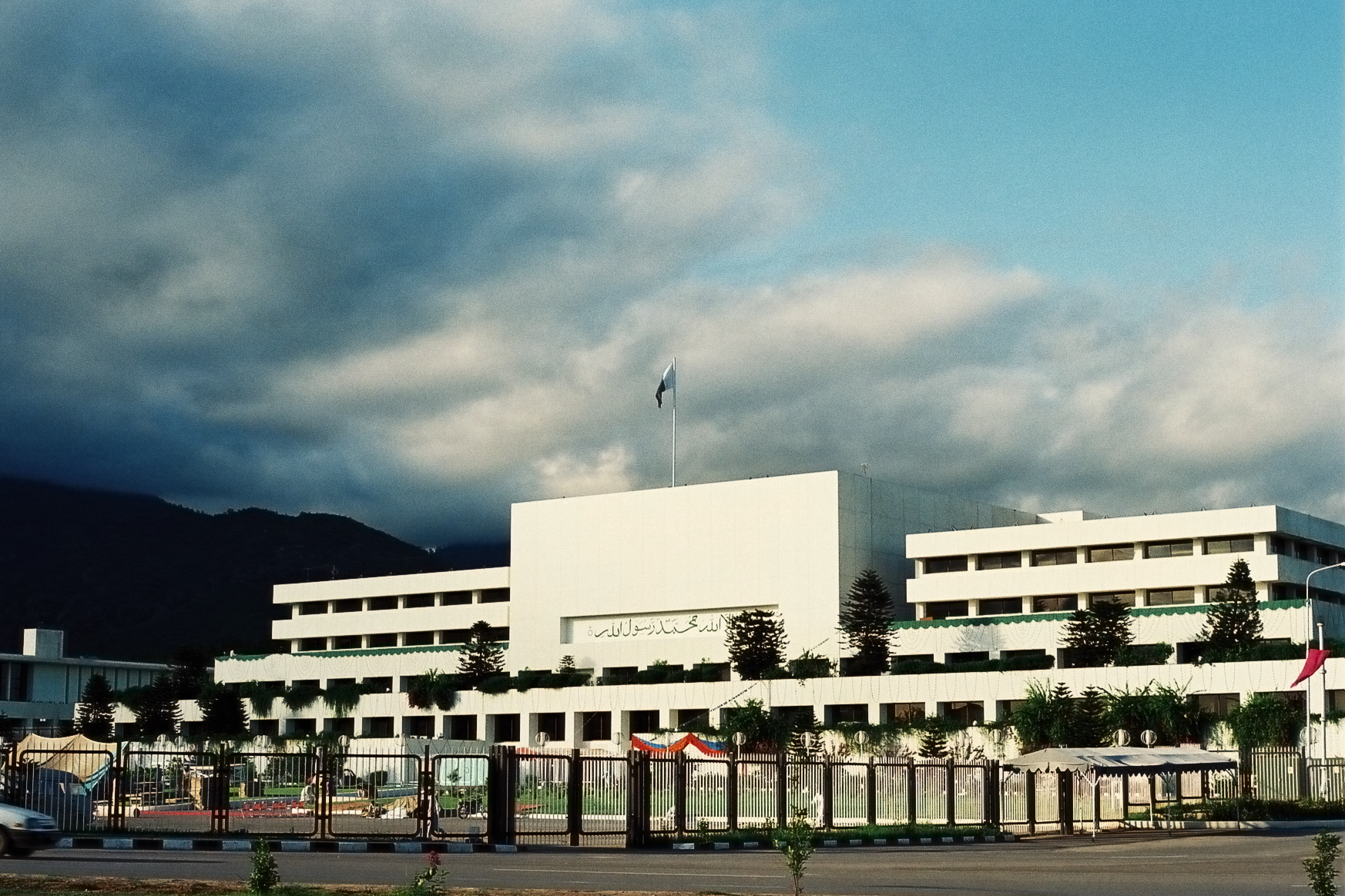 Parliament House This is a photo of a monument in Pakistan identified as the ICT-8